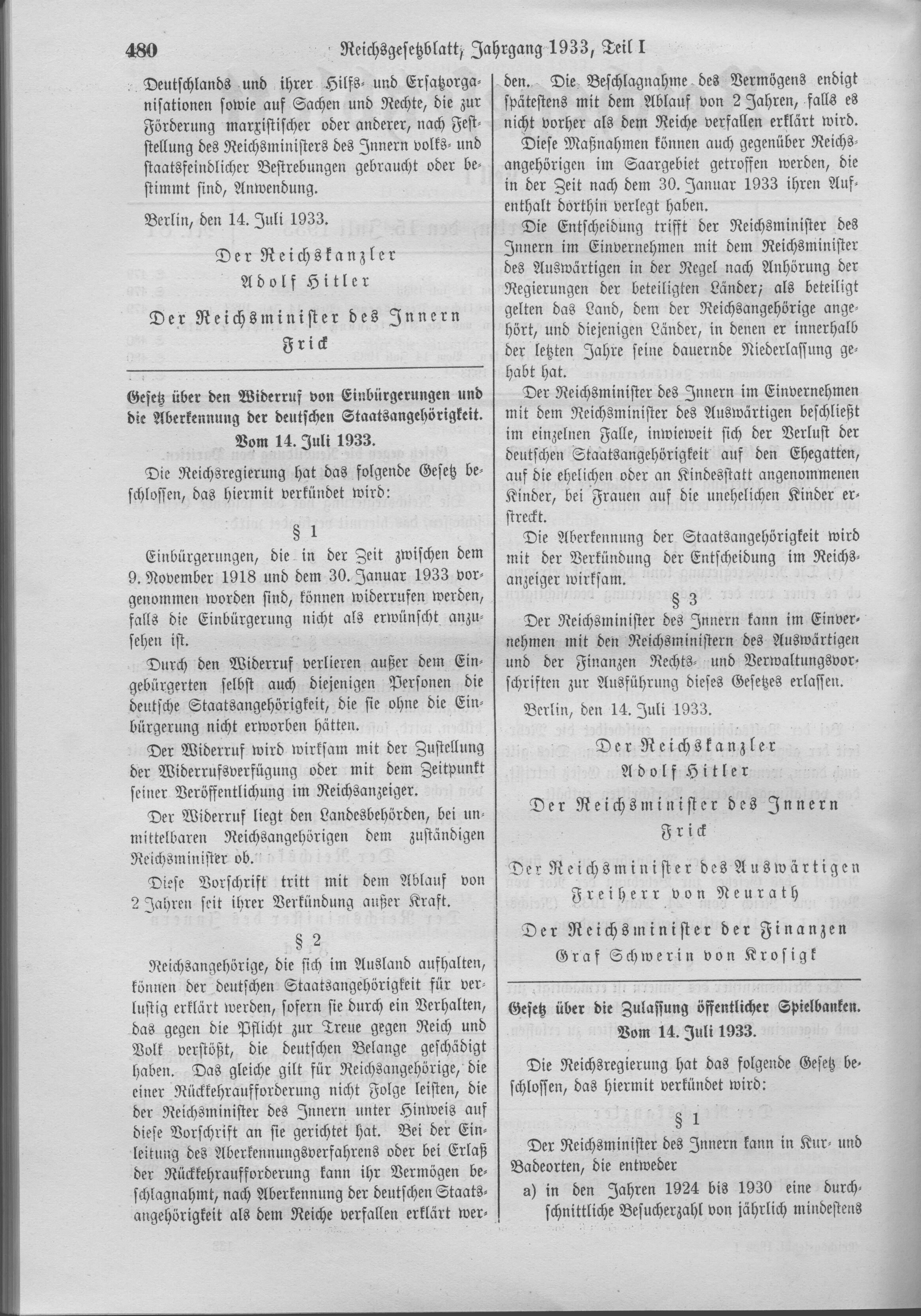 Scan from the Imperial Law Gazette of Germany, 1933, part 1